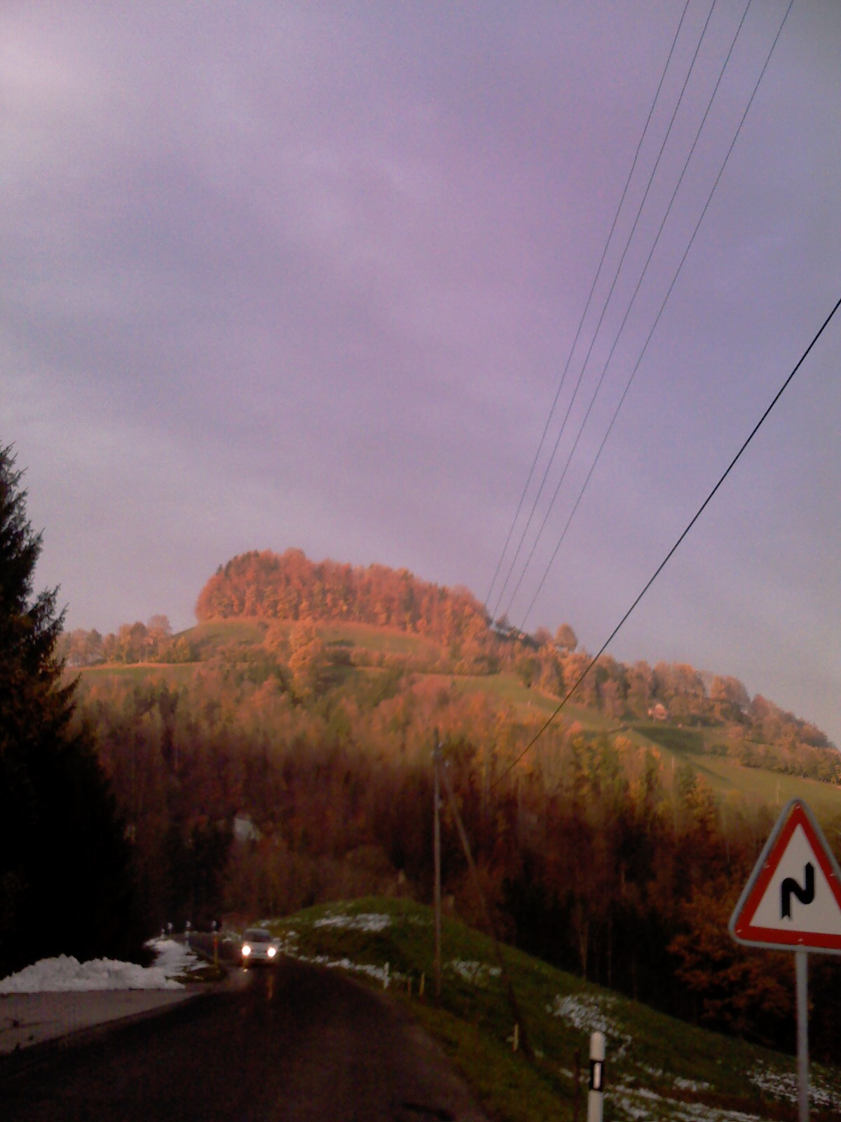 Hill at Guggisberg, Canton of Berne, SwitzerlandEsperanto: Monteto en Guggisberg, Kantono Berno, Svislando